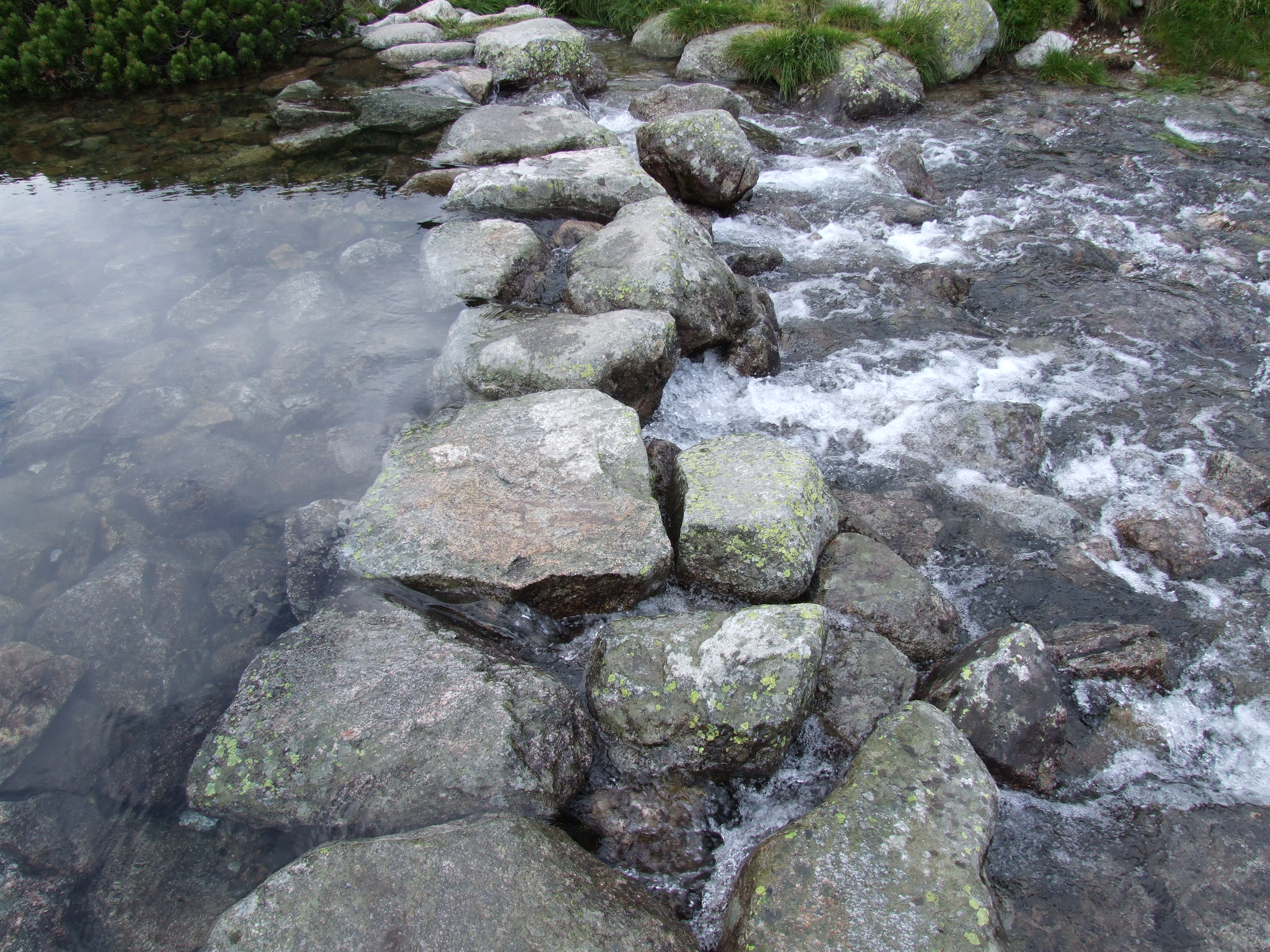 Origins of Czarny Potok stream in Gąsienicowa Valley (High Tatras, Poland)